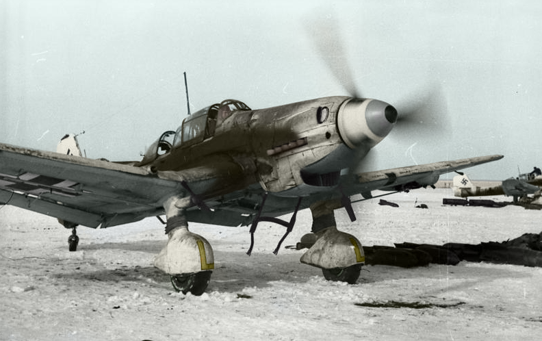 This is a retouched picture, which means that it has been digitally altered from its original version. Modifications: recolored by User:Ruffneck88. == Recolored Version of this image genutztes Programm Recolored v1.1. Russland, Junkers Ju 87 15px|link= Photographer Weber, WilliArchive description Description provided by the archive when the original description is incomplete or wrong. You can help by reporting errors and typos at Commons:Bundesarchiv/Error reports. Sowjetunion.- Flugzeug Junkers Ju 87 auf verschneiter Piste, nach Landung; KBK Lw1Title Russland, Junkers Ju 87 Depicted place RussiaDate January 1943date QS:P,+1943-01-00T00:00:00Z/10Collection German Federal Archives Native nameDas BundesarchivLocationKoblenz (headquarters)Coordinates50° 20′ 32.71″ N, 7° 34′ 21.22″ E Established1946Web page control : Q685753 VIAF: 137346469 ISNI: 0000 0004 0555 2728 LCCN: n92025526 NLA: 36455393 Open Library: OL55798A WorldCat institution QS:P195,Q685753Current location Propagandakompanien der Wehrmacht - Heer und Luftwaffe (Bild 101 I)Accession number Bild 101I-329-2984-05A Source This image was provided to Wikimedia Commons by the German Federal Archive (Deutsches Bundesarchiv) as part of a cooperation project. The German Federal Archive guarantees an authentic representation only using the originals (negative and/or positive), resp. the digitalization of the originals as provided by the Digital Image Archive.